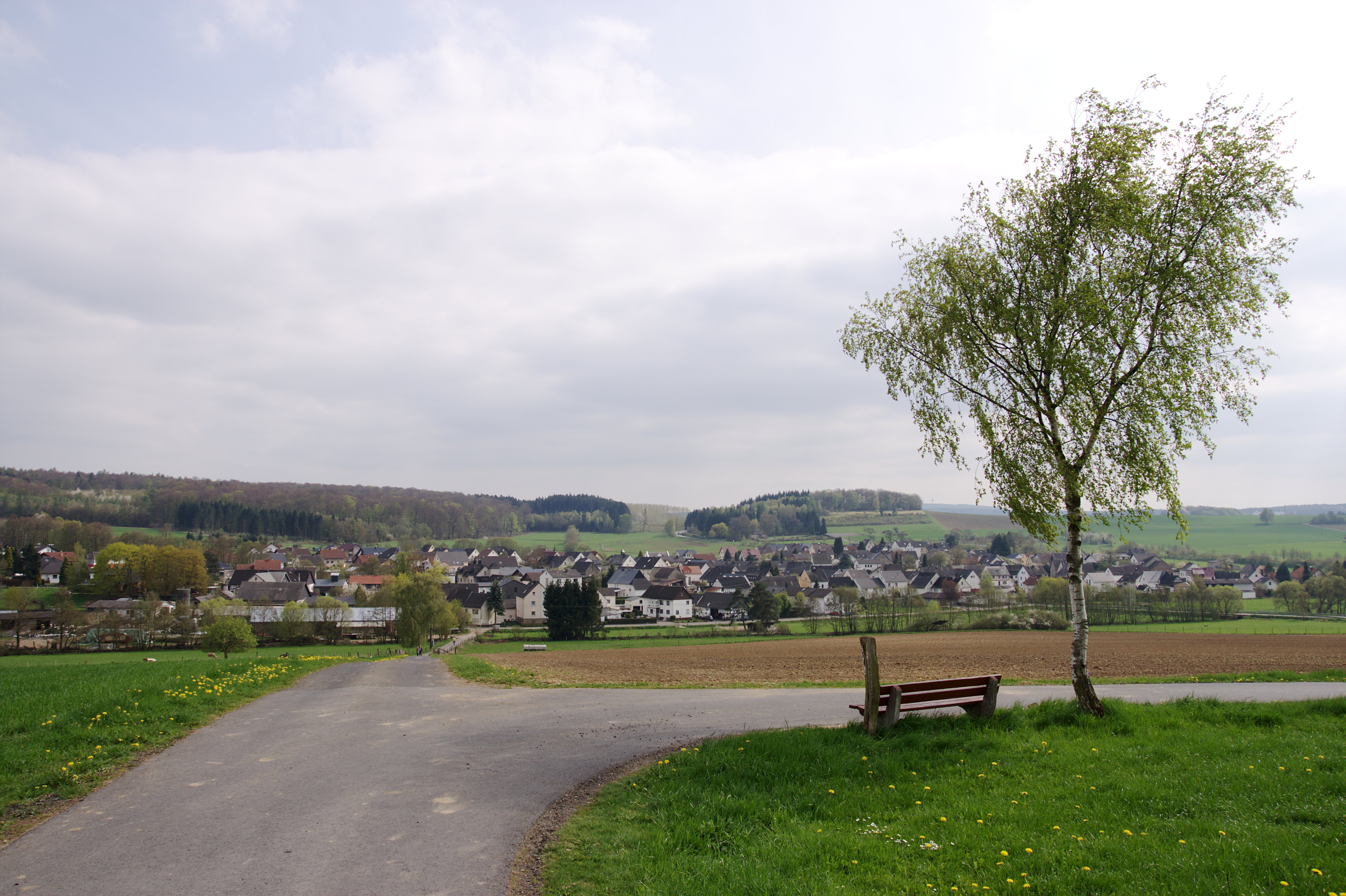 Village Vielbach, Westerwald, Germany. View over the village from North